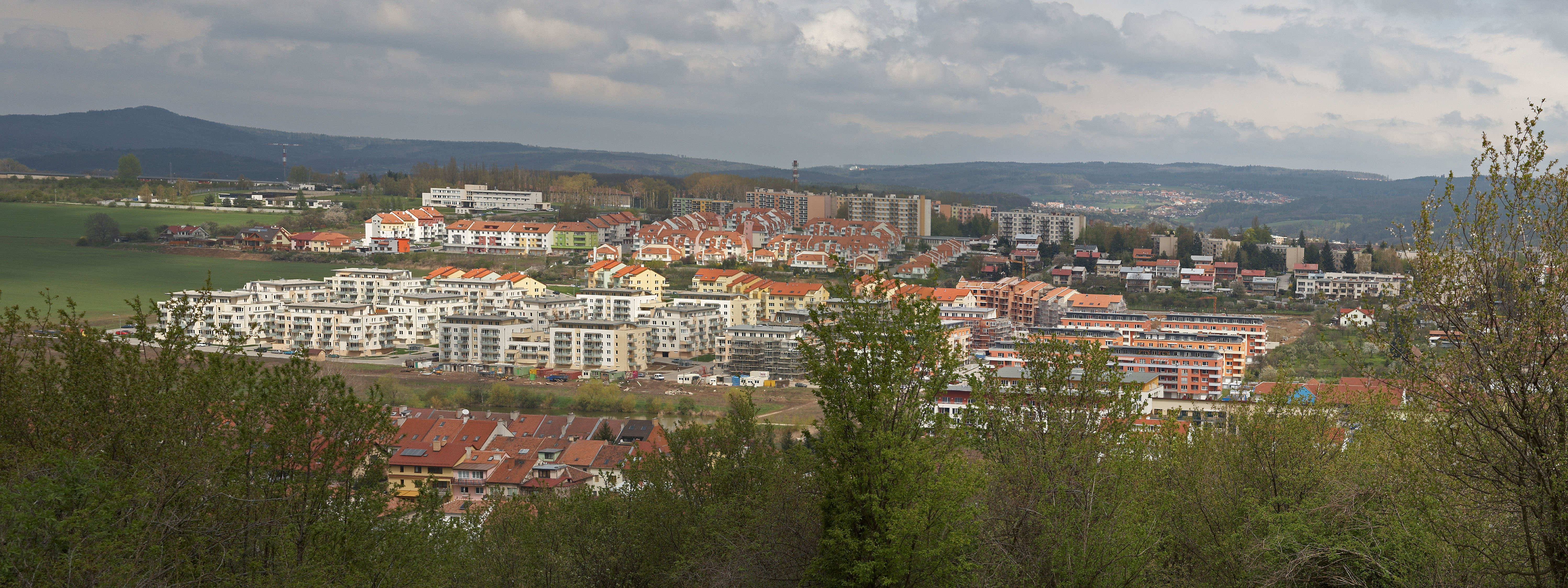 New buildings in Brno Medlánky